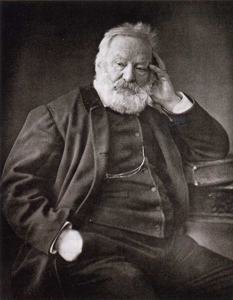 Victor Hugo c. 1870 by Nadar (Gaspard-Félix Tournachon)